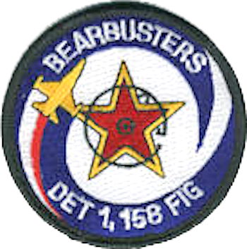 158th Fighter-Interceptor Group - Detachment 1 - Patch